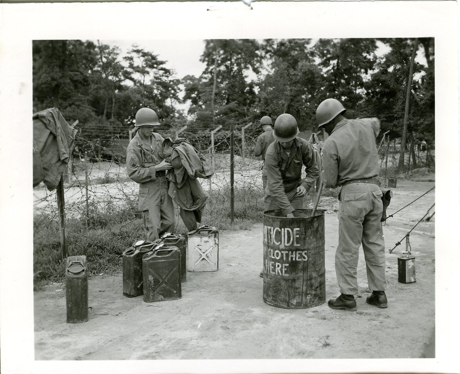 Soldiers processing clothes in miticide. [Sanitation.] [Insect pests, Control.] [Military camps.] ref : MIS 58-6306-1